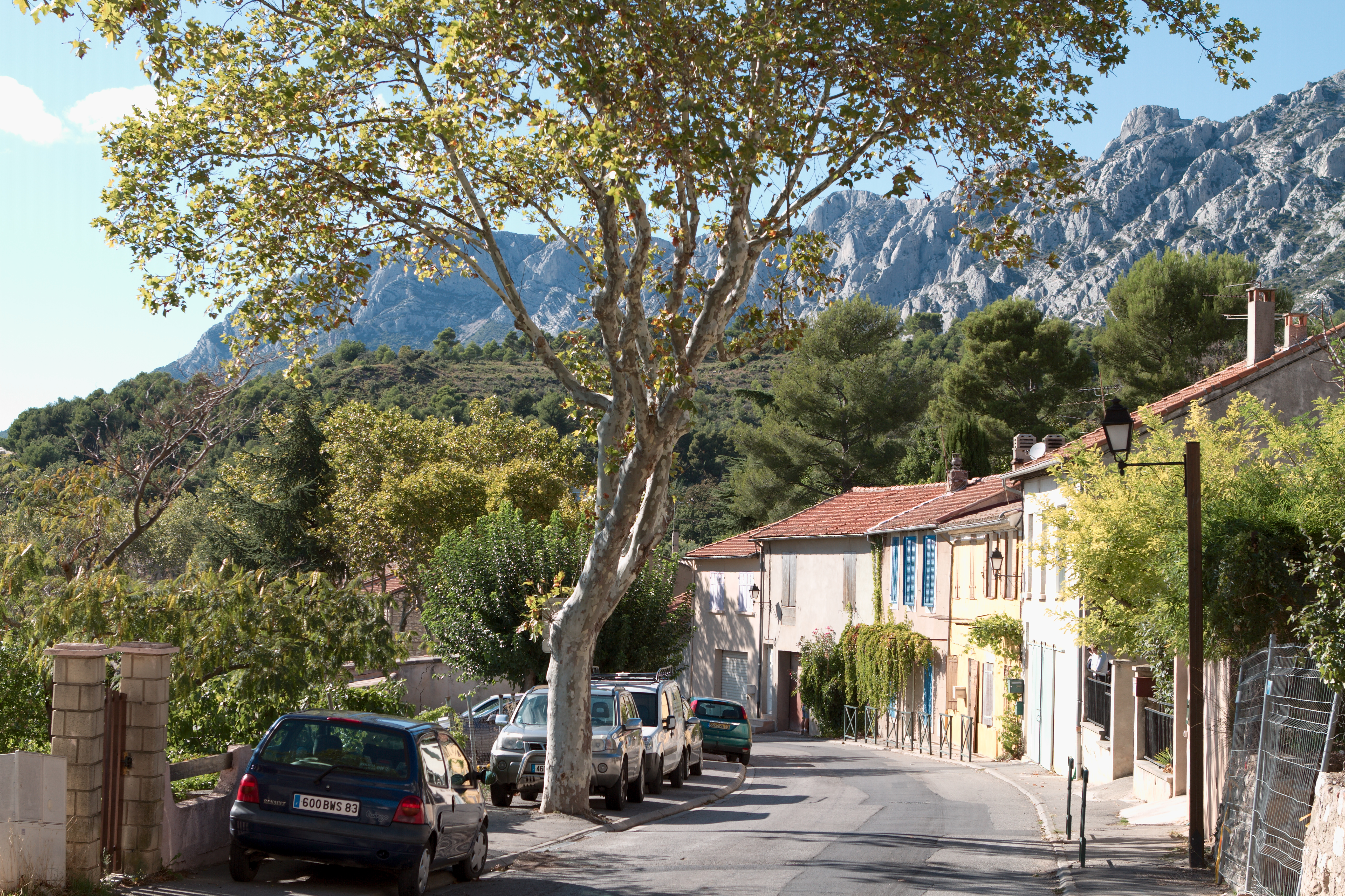 Main street of Puyloubier, Bouches-du-Rhône (France).